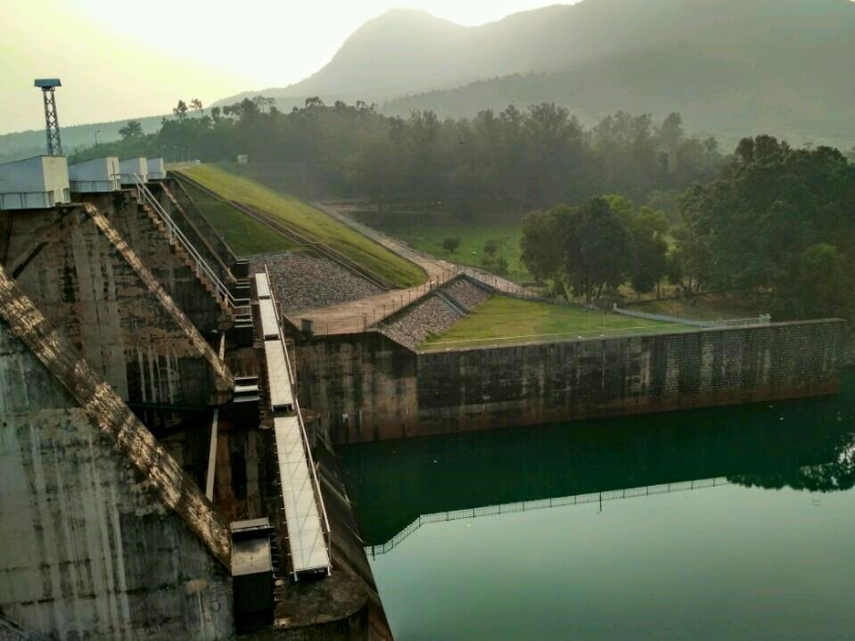 Sulaipat dam